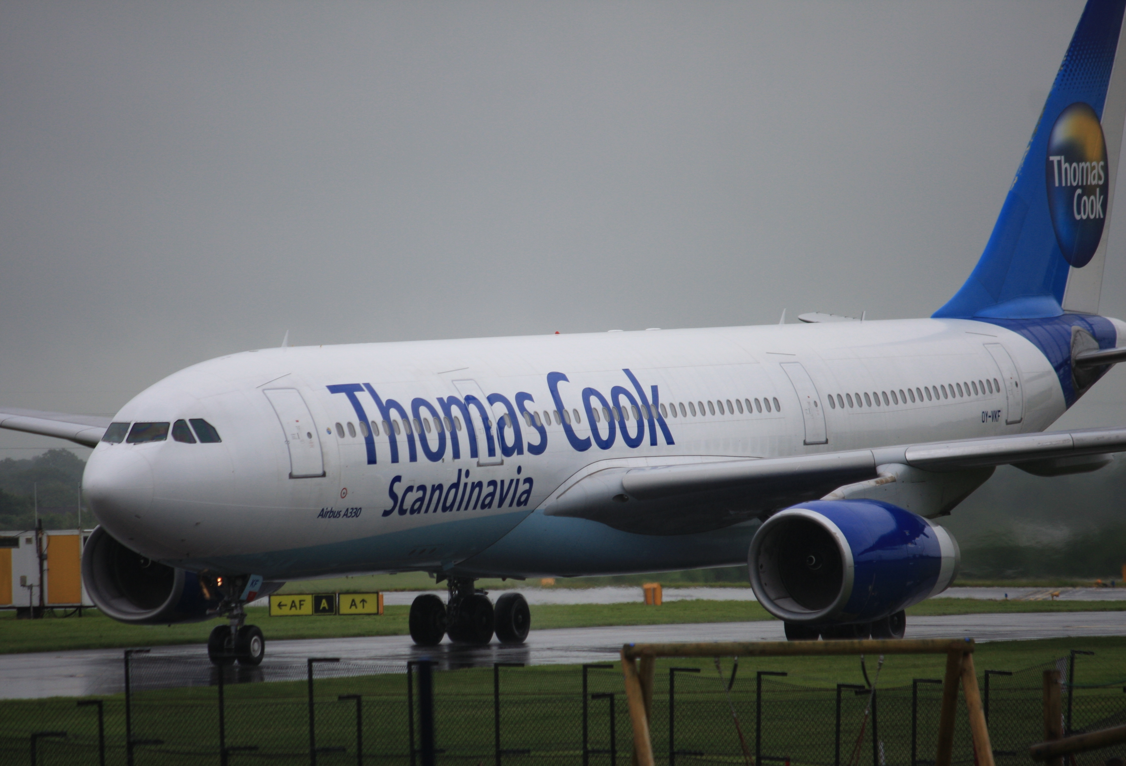 Manchester - International (Ringway) (MAN / EGCC) UK - England, June 8 2012.